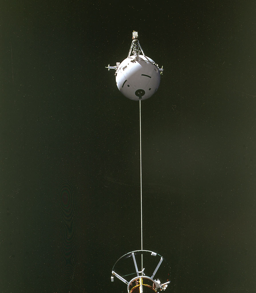 This is a Space Shuttle Orbiter Atlantis (STS-46) onboard photo of the Tethered Satellite System (TSS-1) deployment. A cooperative development effort by the Italian Space Agency (ASI) and NASA, the Tethered Satellite System (TSS) made capable the deployment and retrieval of a satellite which is attached by a wire tether from distances up to 100 km from the Orbiter. These free-flying satellites are used as observation platforms outside of the Orbiter.